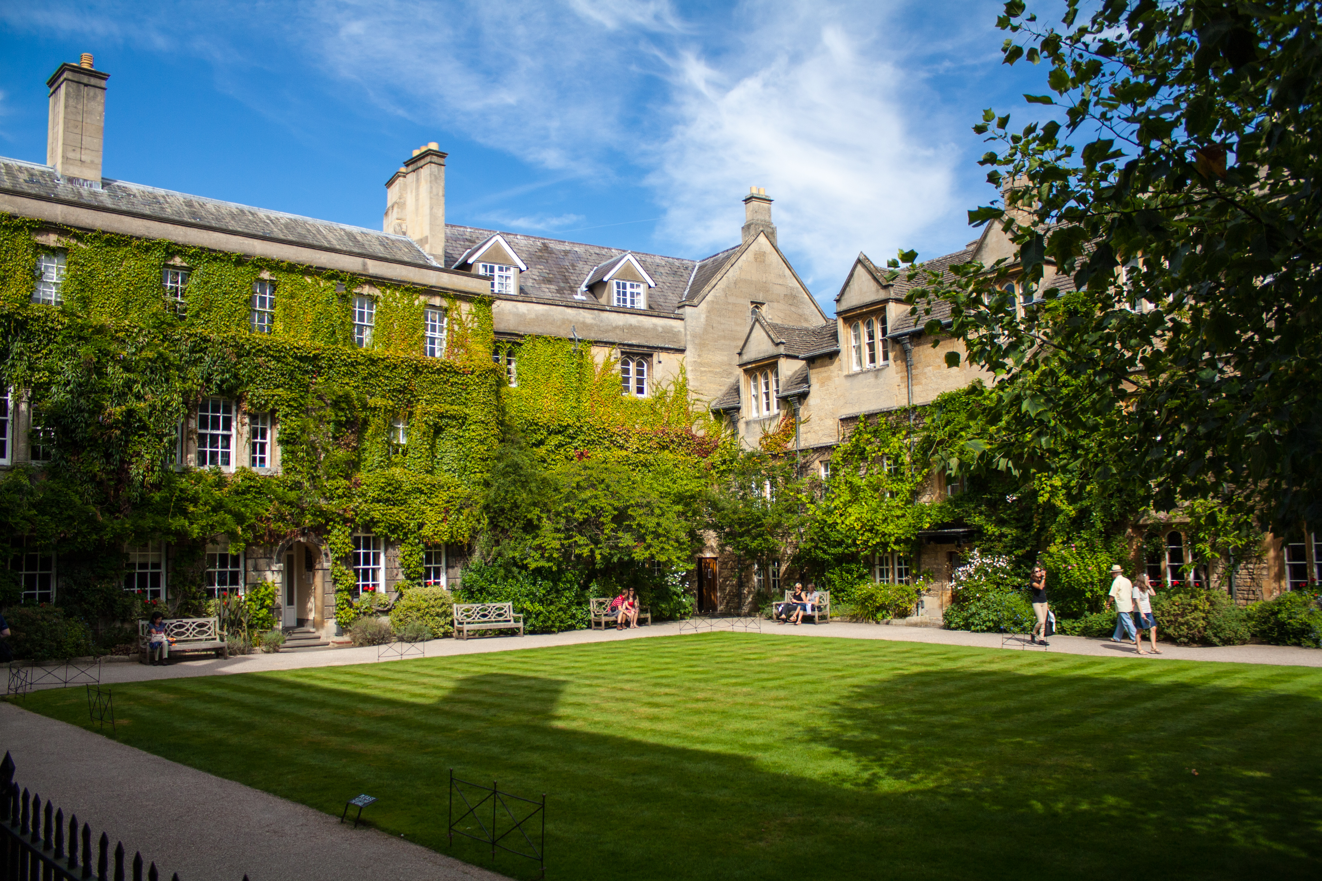 Hertford College, Oxford